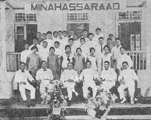 Sam Ratulangi (seated at the front, third from left) with others in front of the Minahasa Raad building in Manado.